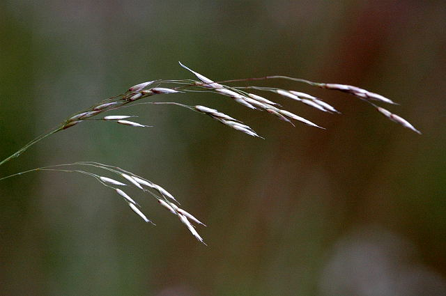 Picture taken in Commanster, Belgian High Ardennes . Species: Festuca altissima